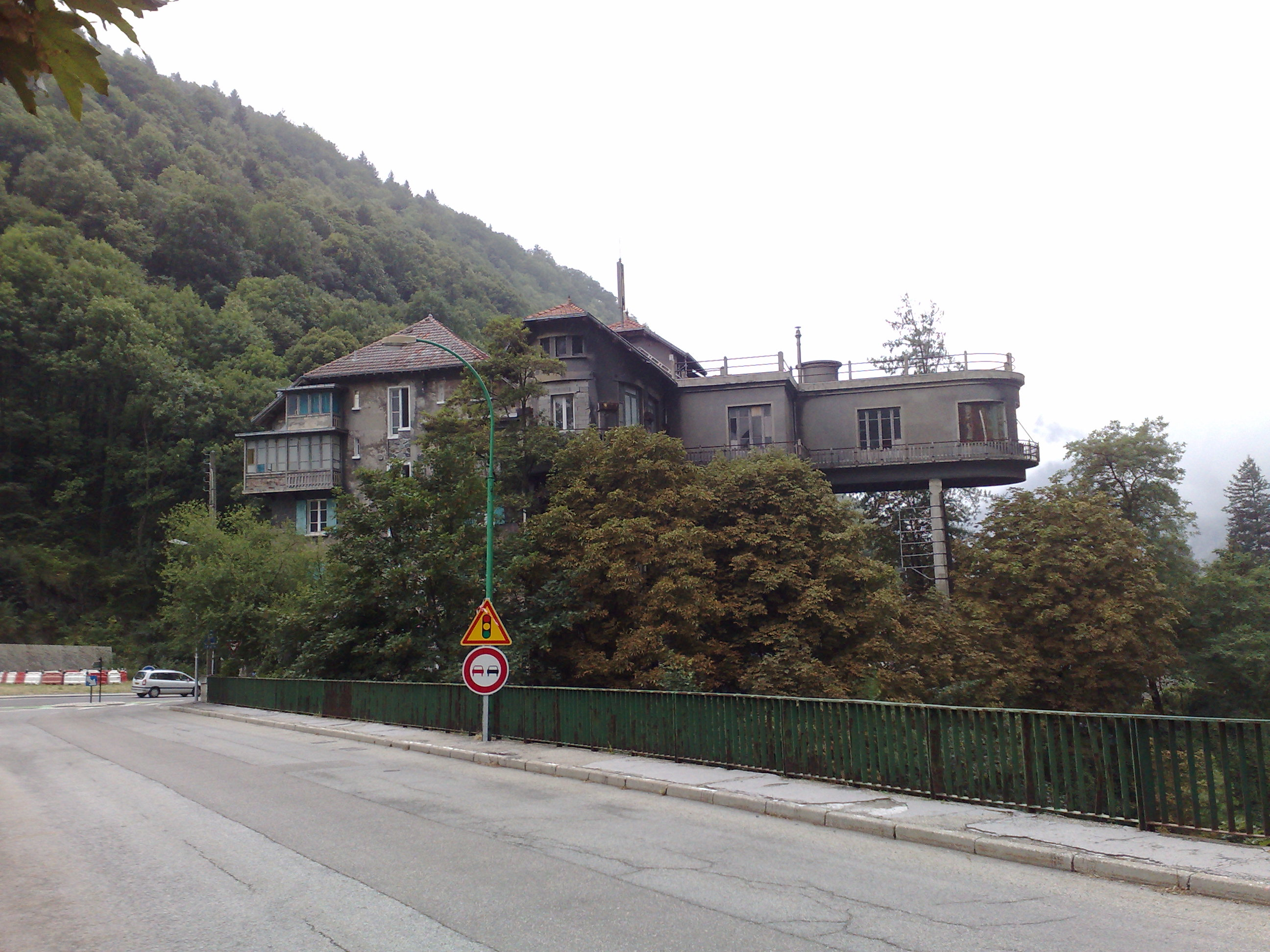 The house of Charles Albert Keller, part of which is built on pylons to overlook Keller's factories.